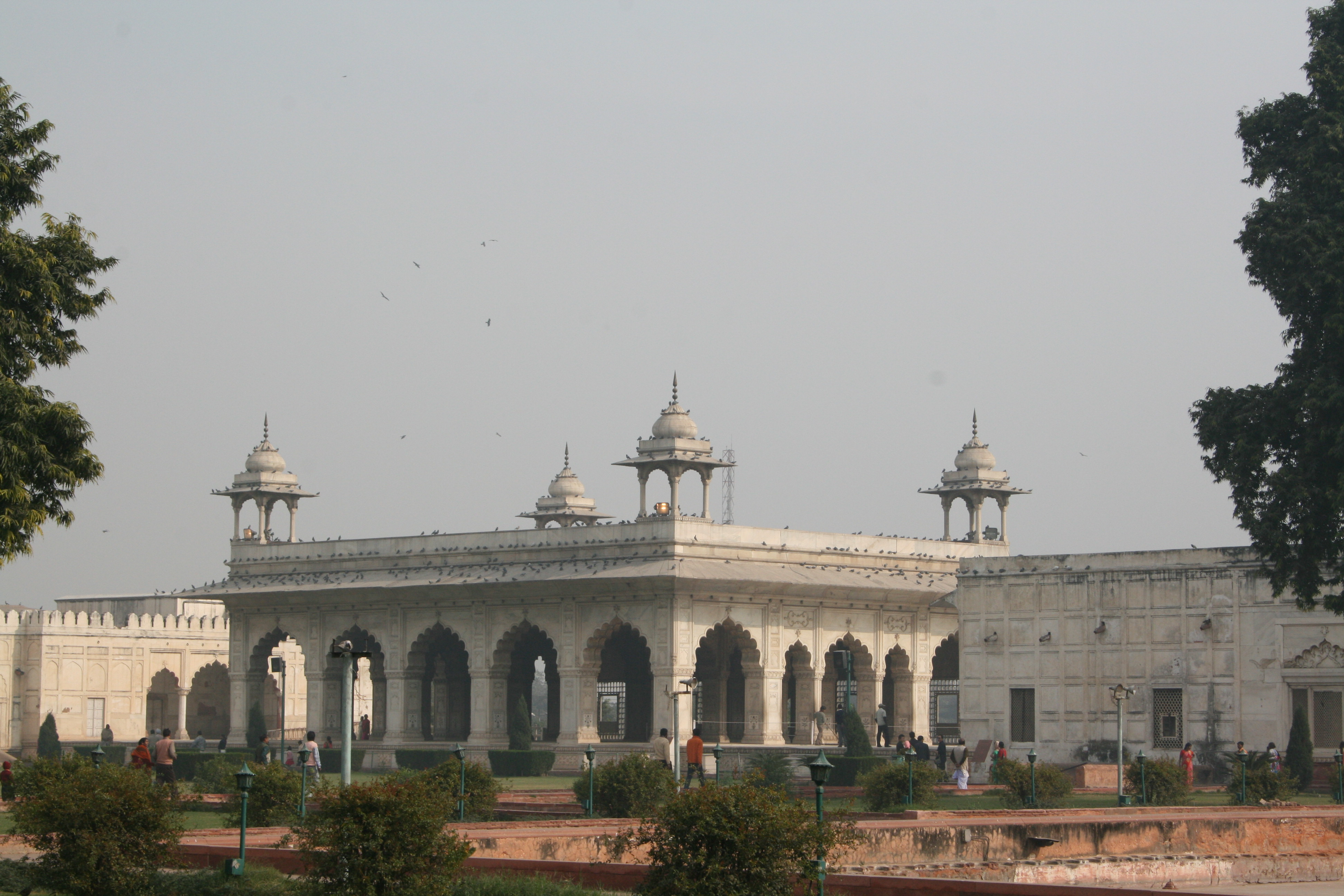 Diwan-i Khas, Red Fort, Delhi, India